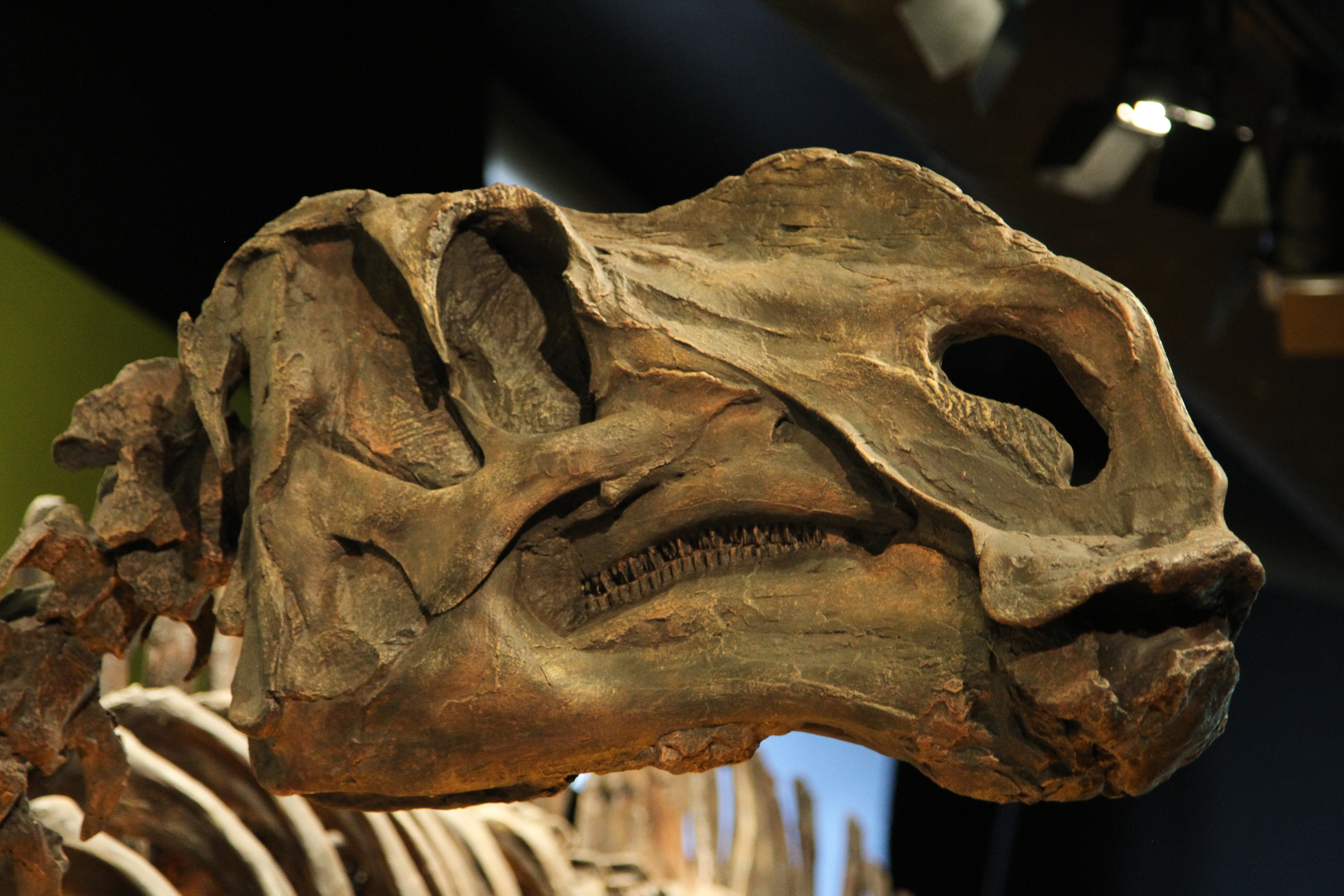 Academy of Natural Sciences of Drexel University 1900 Benjamin Franklin Parkway Philadelphia, PA 19103 March 18, 2013